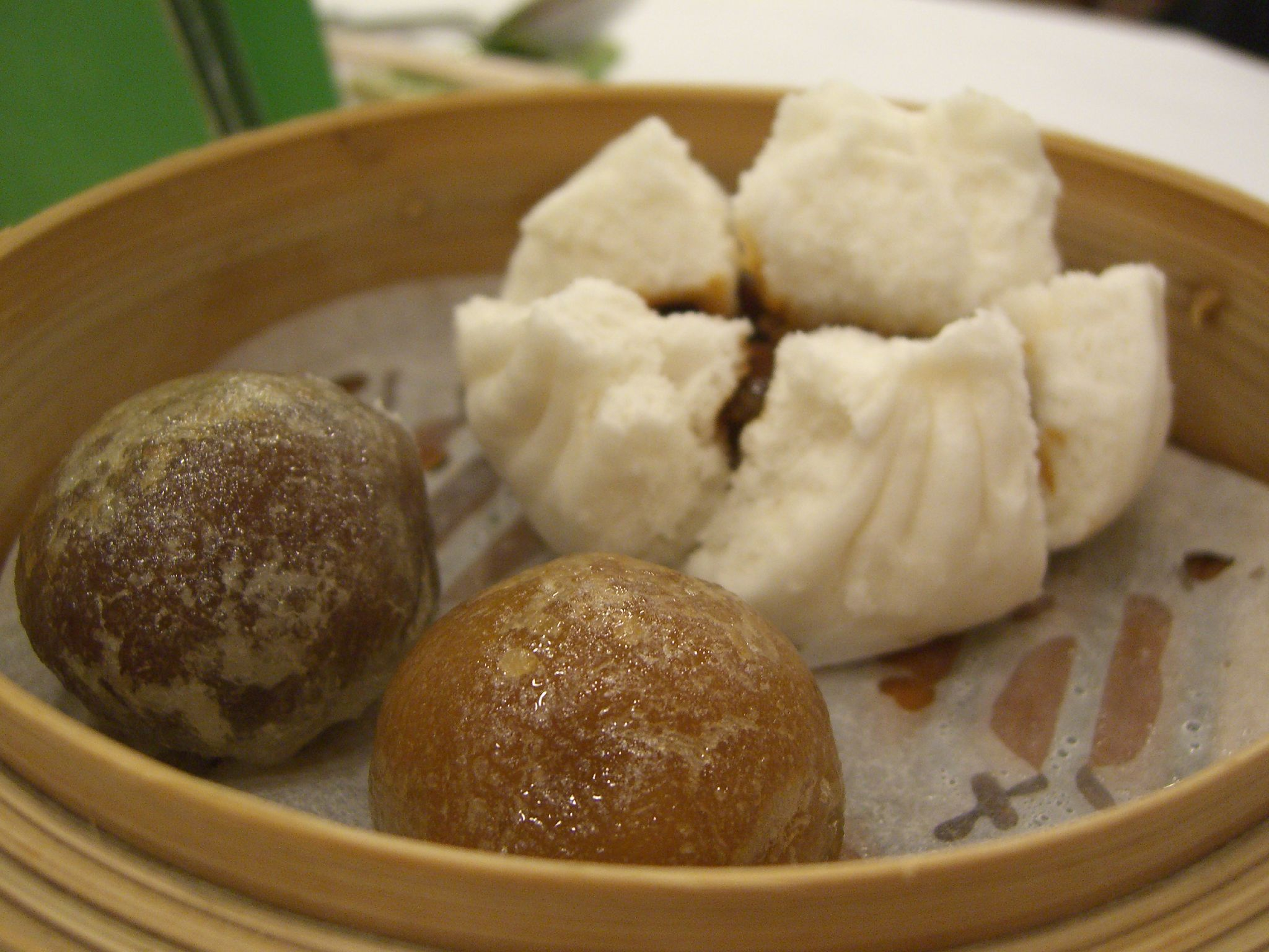 Crystal Bun with Cha Siu Bun